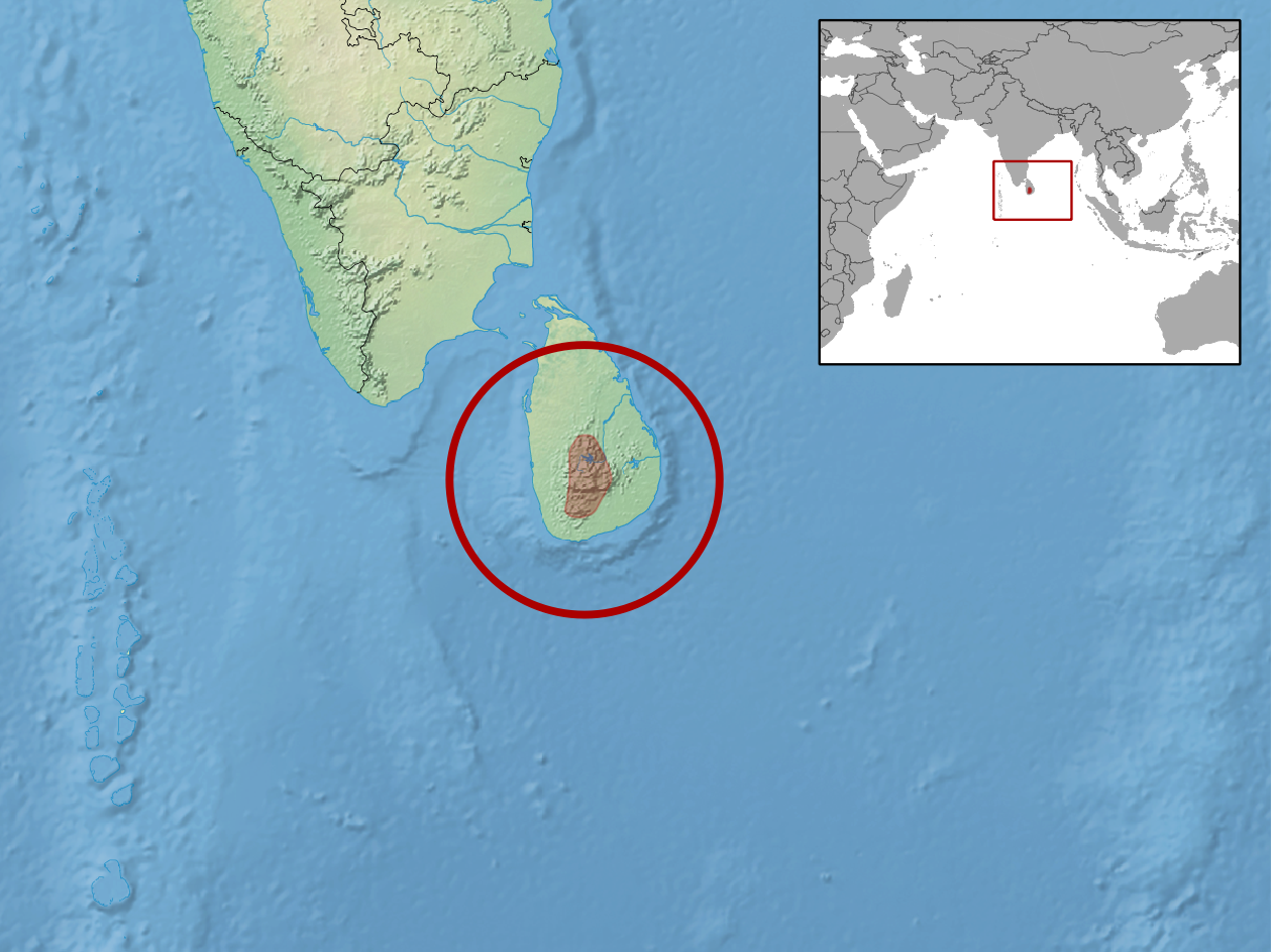 geographic distribution of Lankascincus taprobanensis